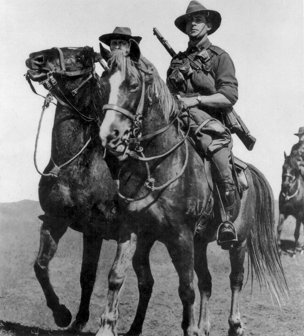 From AWM: "Australian light horsemen riding waler horses. The soldiers are of the original contingent of the Australian Imperial Force and the photo was taken prior to their departure from Australia in November 1914. The soldier on the right is Trooper William Harry Rankin Woods, 1st Light Horse Regiment, who died of wounds on 15 May 1915, one of the first light horsemen to die during the Battle of Gallipoli."